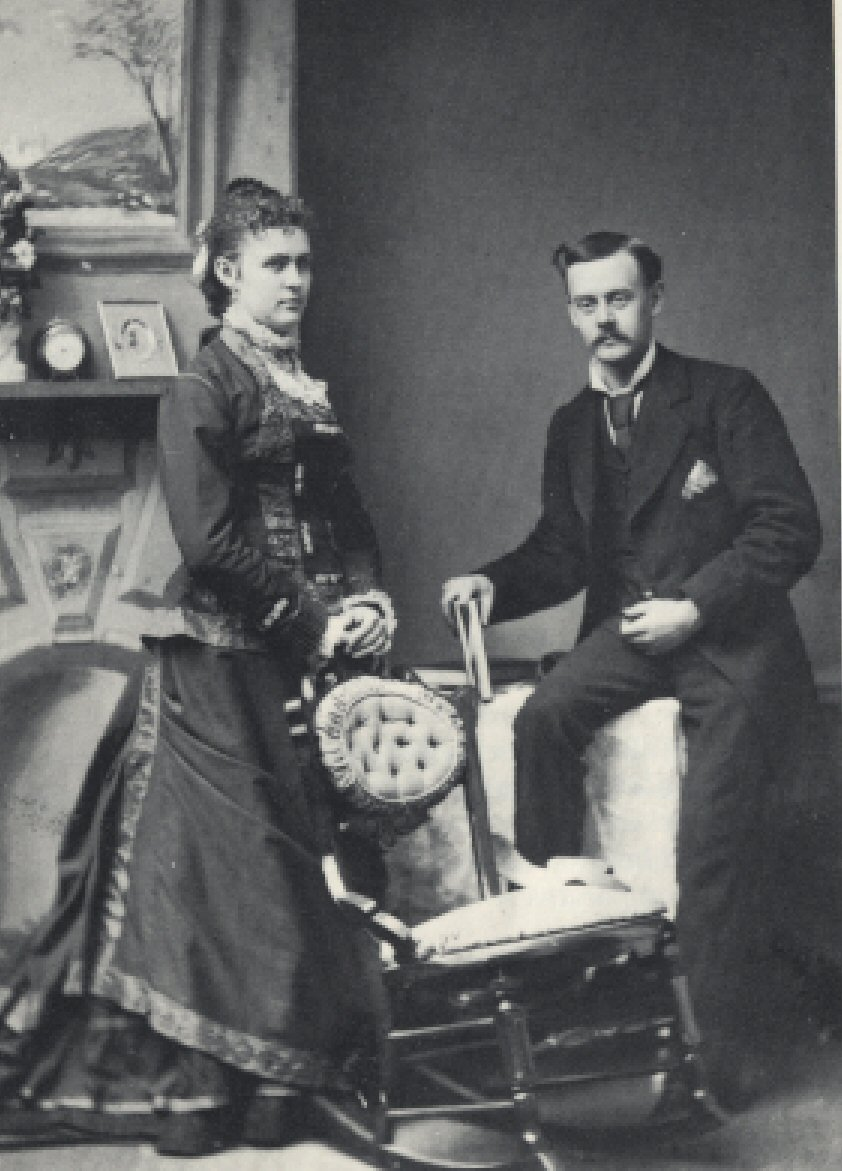 Lily Synder and F. Jay Haynes, January 1878 after their marriage.